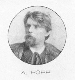 Portrait of Antonín Popp (1850-1915), Czech sculptor